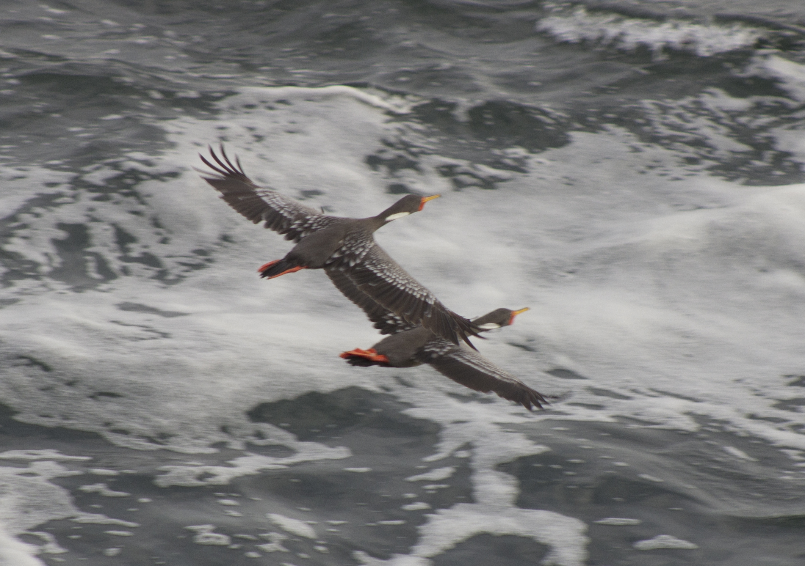 Phalacrocorax gaimardi